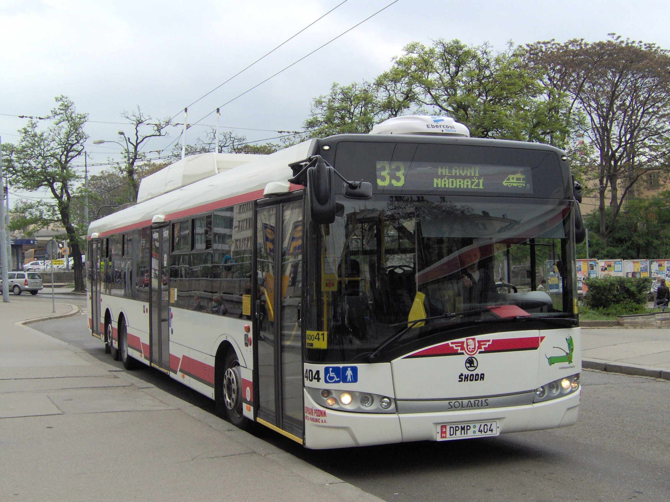 Trolleybus Škoda 28Tr Solaris no. 404 from Pardubice in Brno, Czech Republic